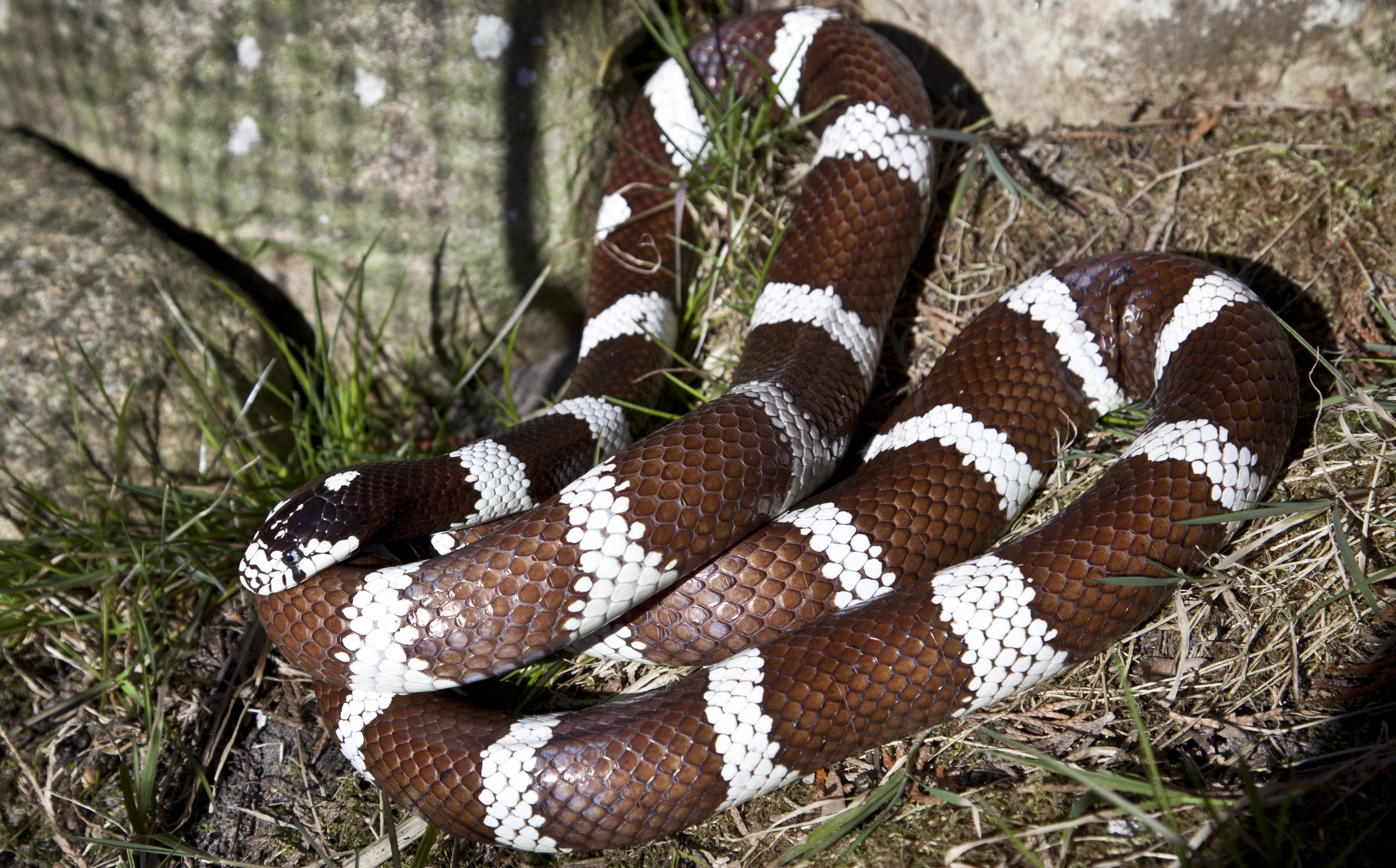 California kingsnake